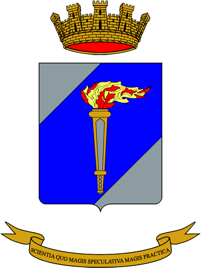 Coat of Arms of the Transport & Material School; Italian Army.